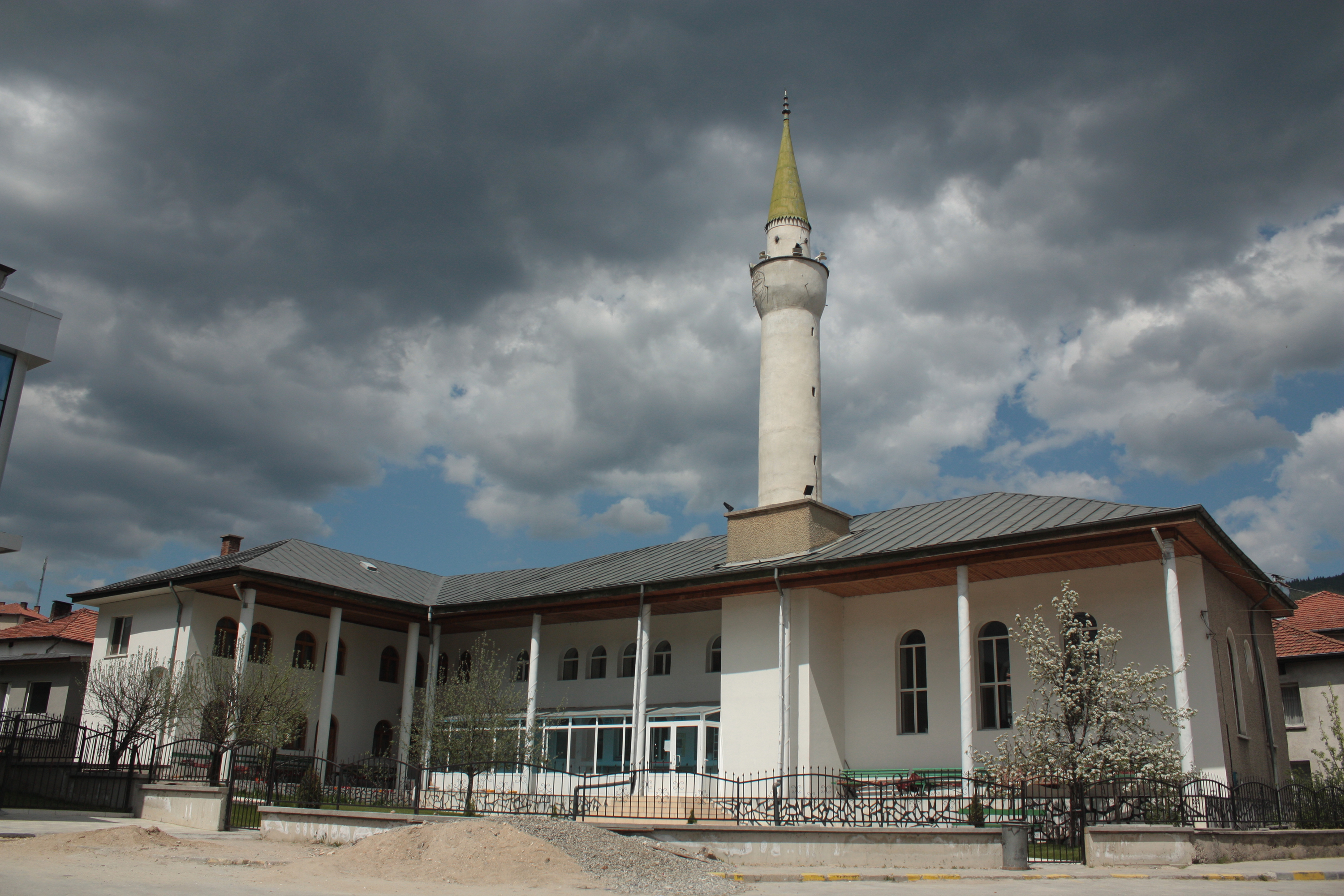 Mosque in Sarnitsa